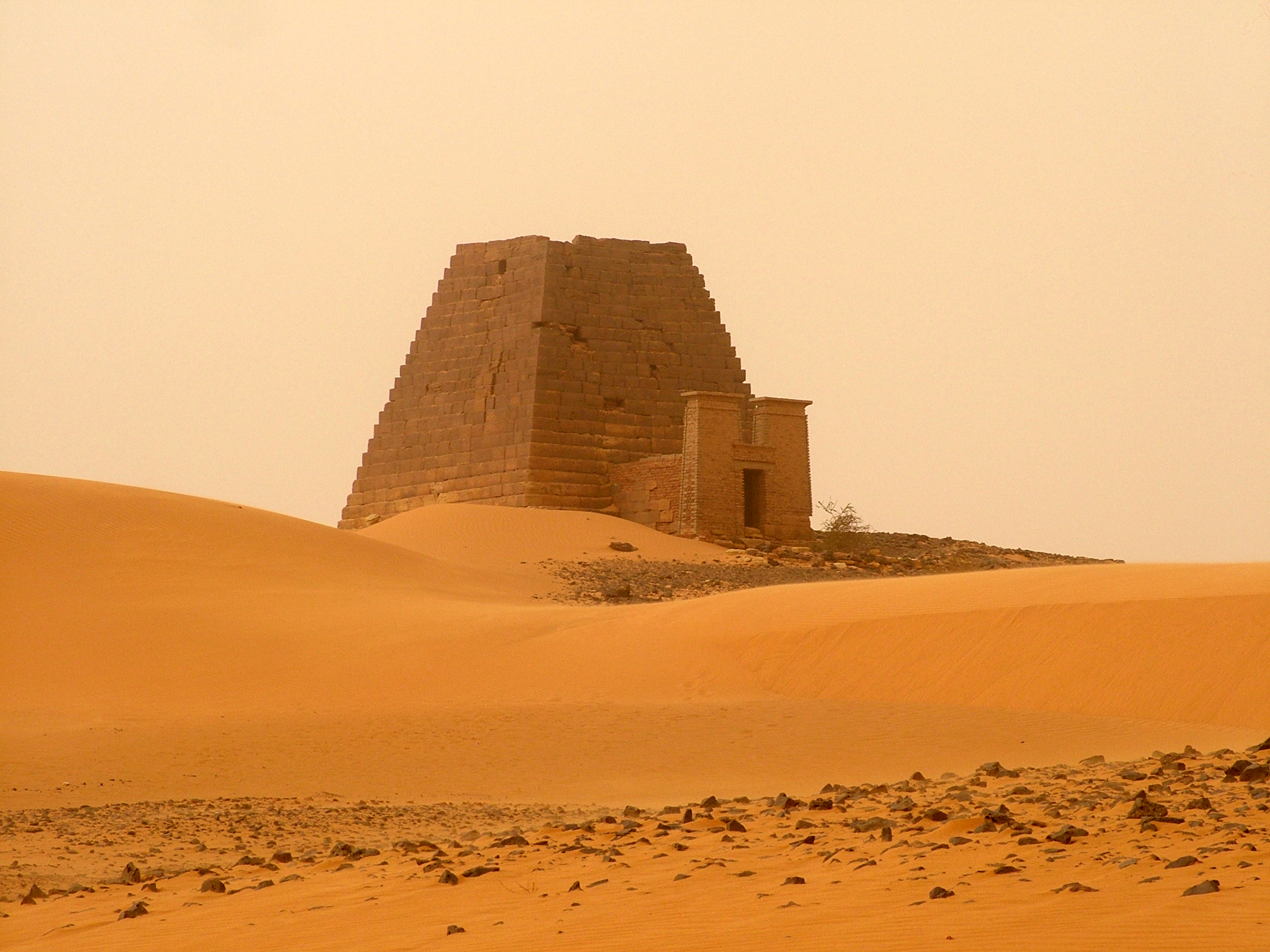 Natakami meroitic kings pyramid in Meroe